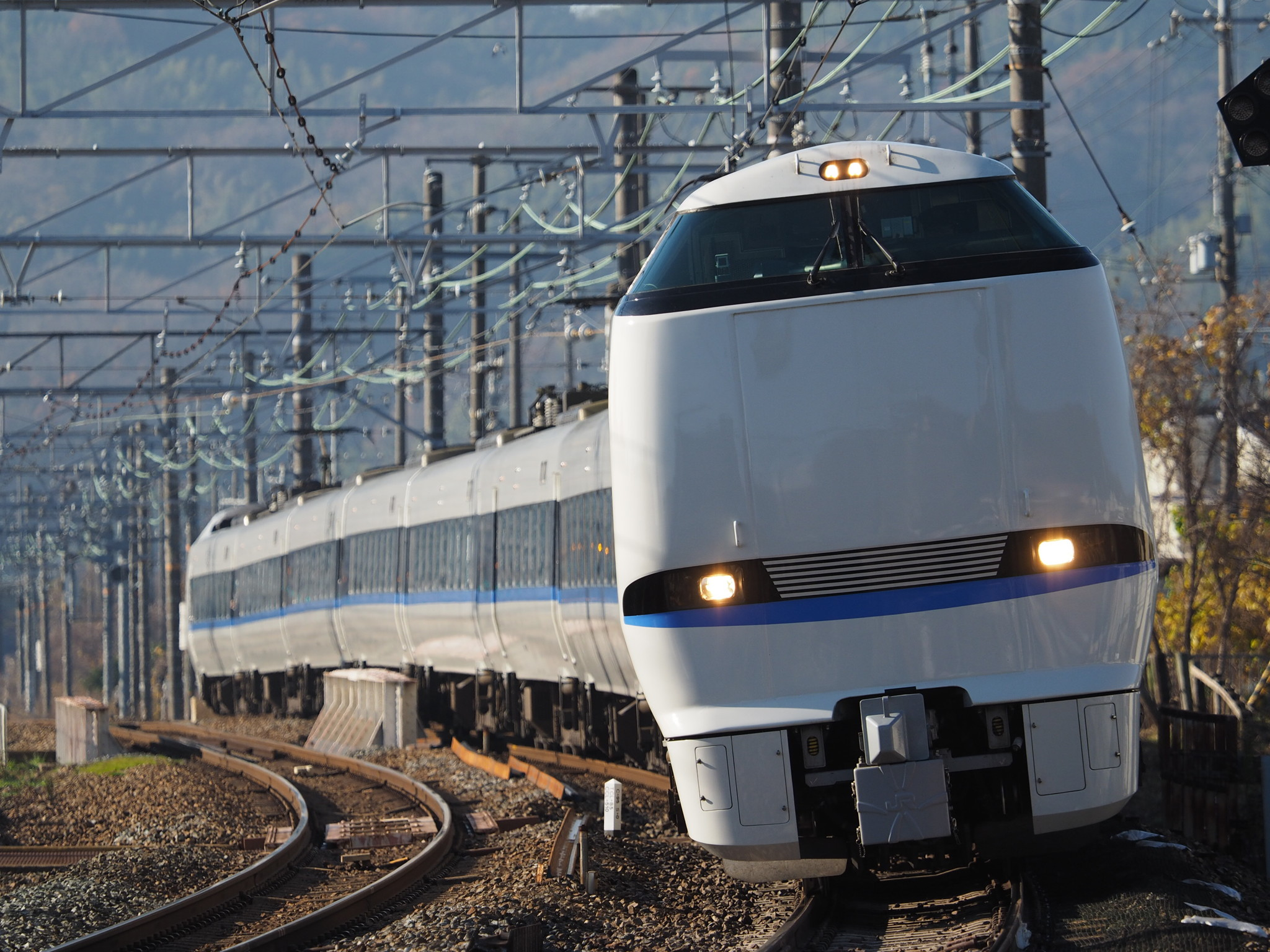 A refurbished JR West 683-4000 series EMU on a Thunderbird limited express service near Yamazaki Station